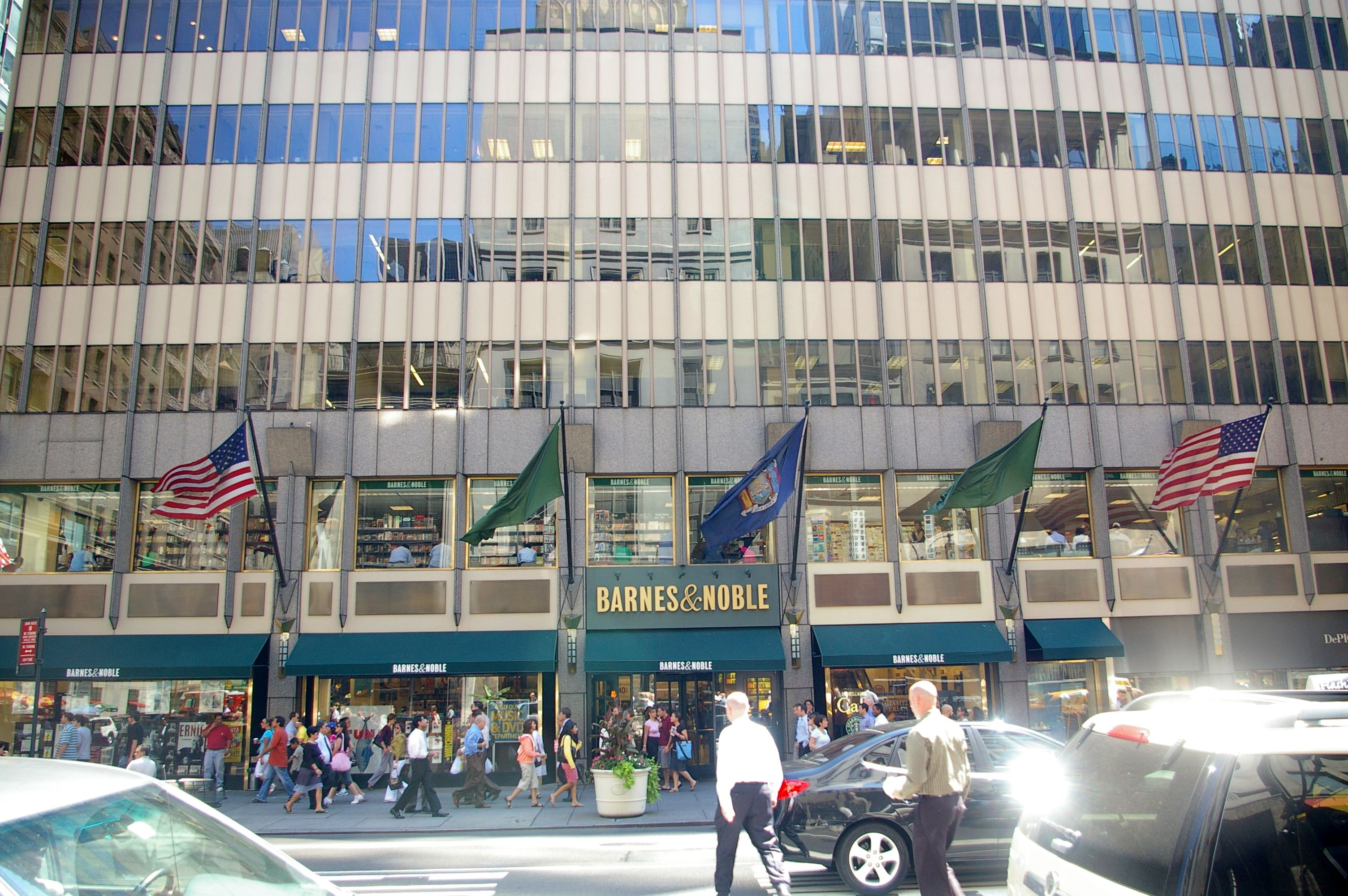 Barnes & Noble location, 555 Fifth Avenue, New York, NY, USA.